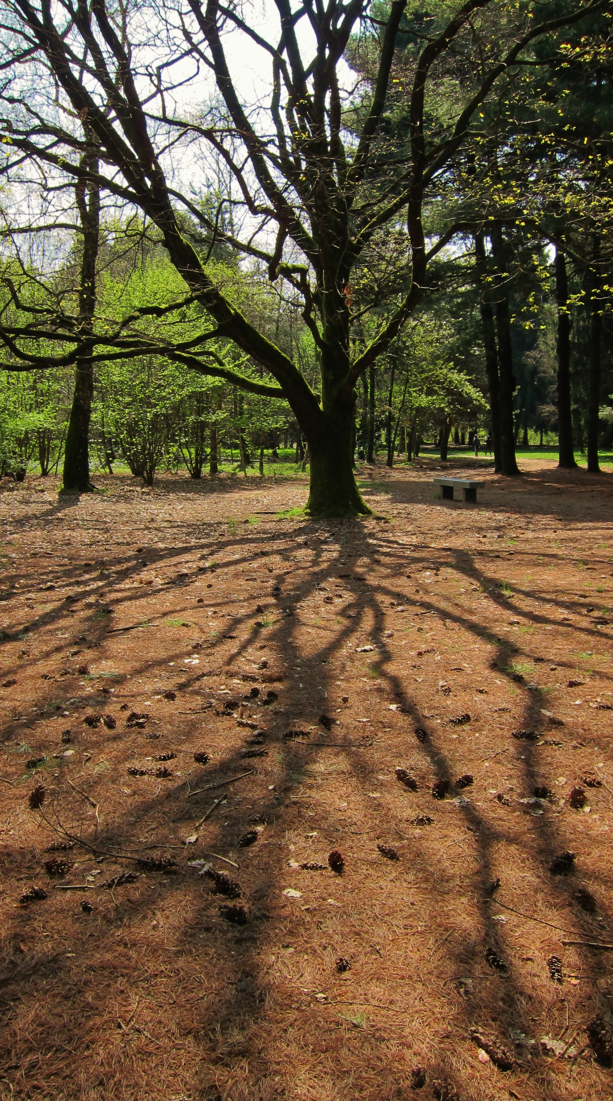 Stone bench under an oak tree in Parco Alto Milanese in Legnano